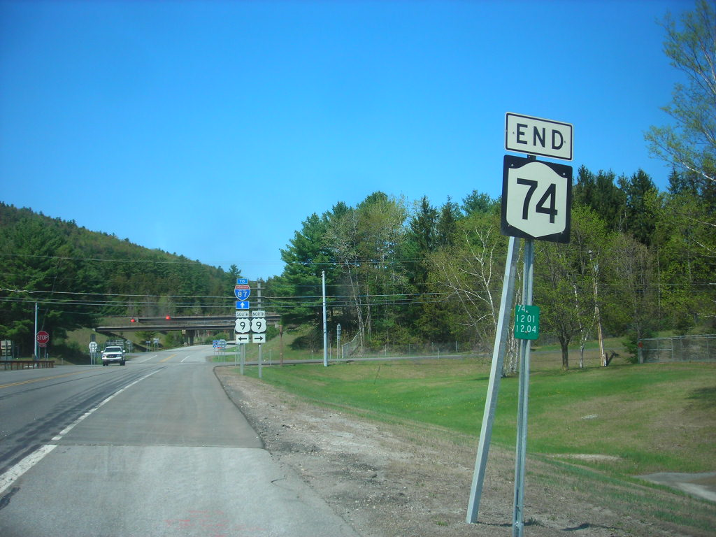 Sign depicting the western terminus of New York State Route 74 in Schroon, NY.